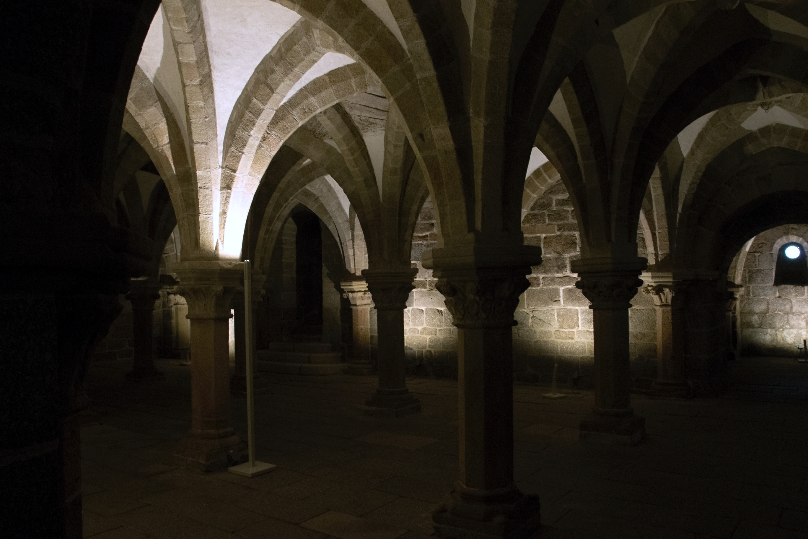 The crypt of the Basilica of St. Procopius in TřebÍč, around 1220.